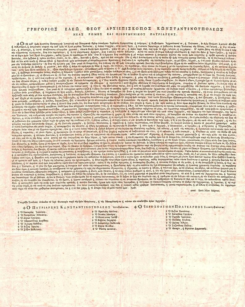 Letter by Gregory V, Orthodox Patriarch in Constantinople, denouncing the 1821 Greek revolution against the Ottoman Empire.